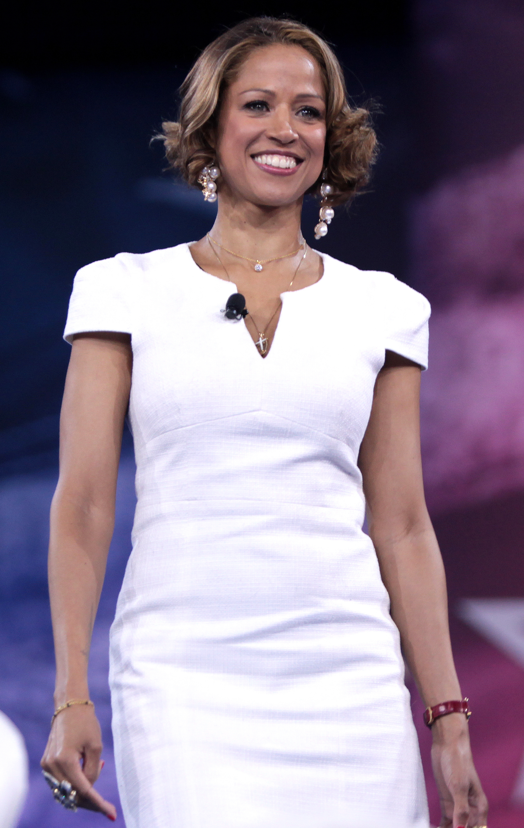 Stacey Dash speaking at CPAC 2016 in National Harbor, Maryland.